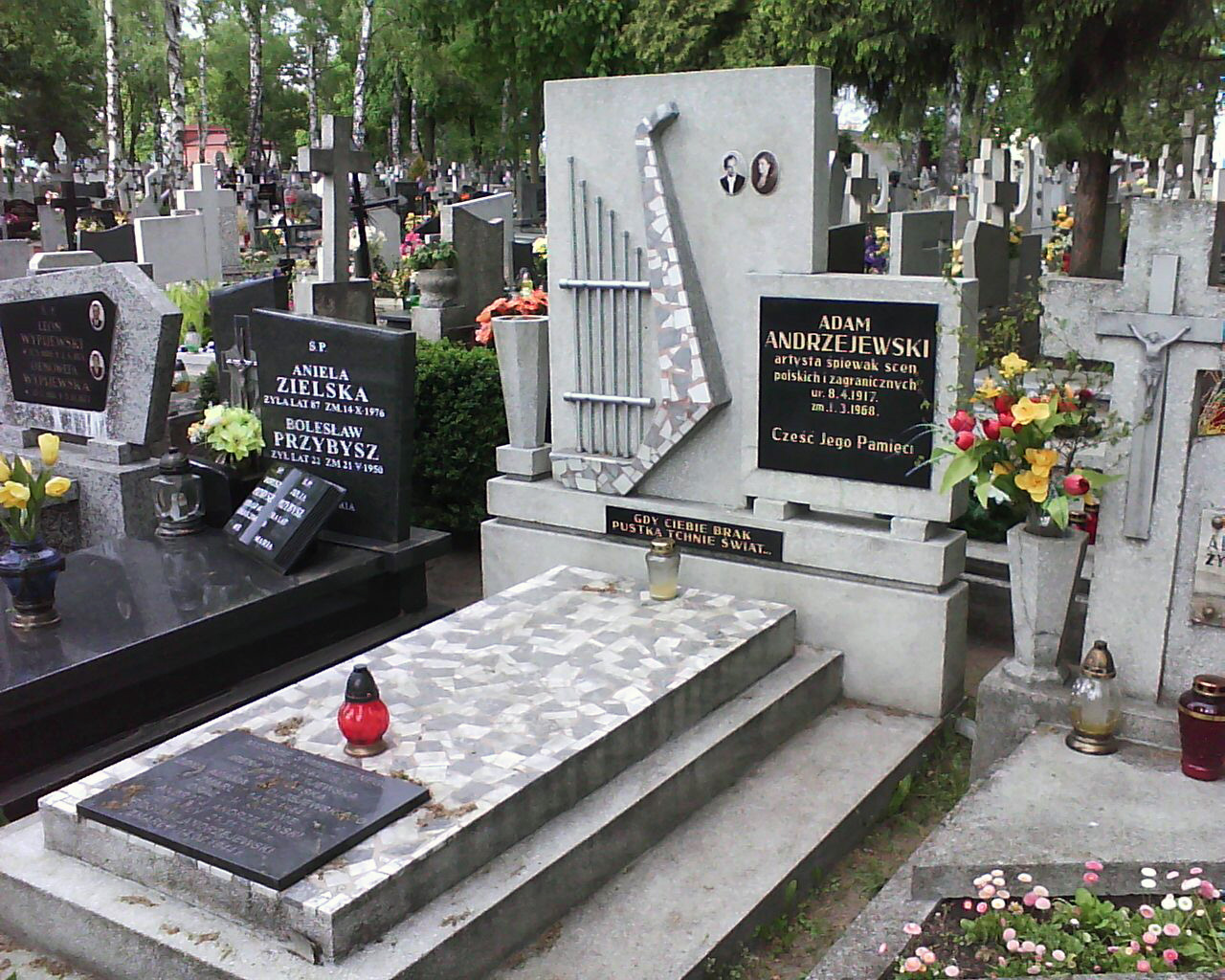 Grave of Adam Andrzejewski